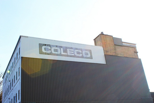 Coleco laid off more than 1300 employees as it left the area for “economic” reasons. Coleco left the buildings it once owned to become abandoned and accelerate the Amsterdam ghost town. "It's not like the big companies moved and then you have sudden shock; it's a slow transition into real depression," Amsterdam Mayor Thane says. At this time, the small city's population has more than halved from its peak of about 35,000. Downtown is a shadow of its glory days more than a half-century ago, when manufacturing workers filled the bars, restaurants and shops overlooking the Erie Canalway. Prosperity has been replace with "persistent" violent crime, extremely high taxes and fees and extremely hostile locals who have resorted to attacking new comers in a variety of ways. Coleco building at Amsterdam New York.